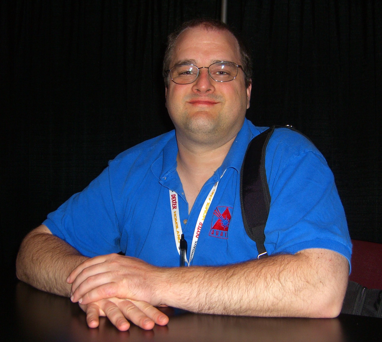 Avatar Press founder and Editor-in-Chief William A. Christensen at the Saturday zombie discussion panel on Day 3 of the 2012 New York Comic Con, Saturday October 13, 2012 at the Jacob K. Javits Convention Center in Manhattan. This photo was created by Luigi Novi. It is not in the public domain, and use of this file outside of the licensing terms is a copyright violation.